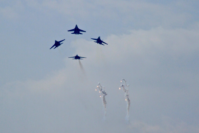 MAKS Airshow-2007